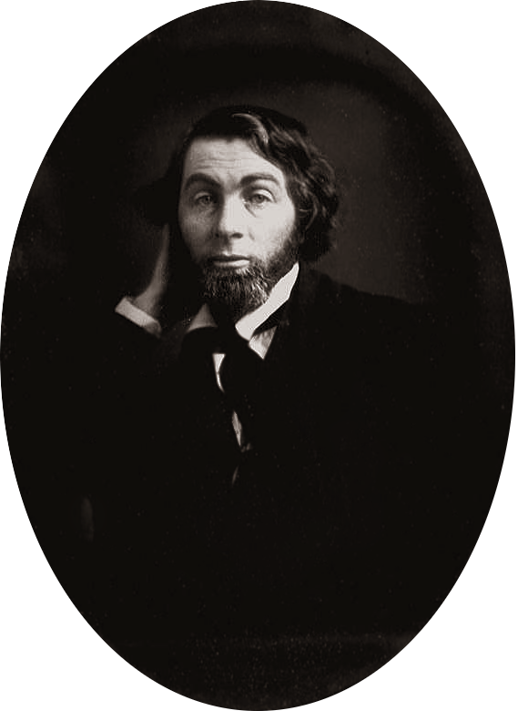 Walt Whitman at age 28, Feb-May 1848, New Orleans